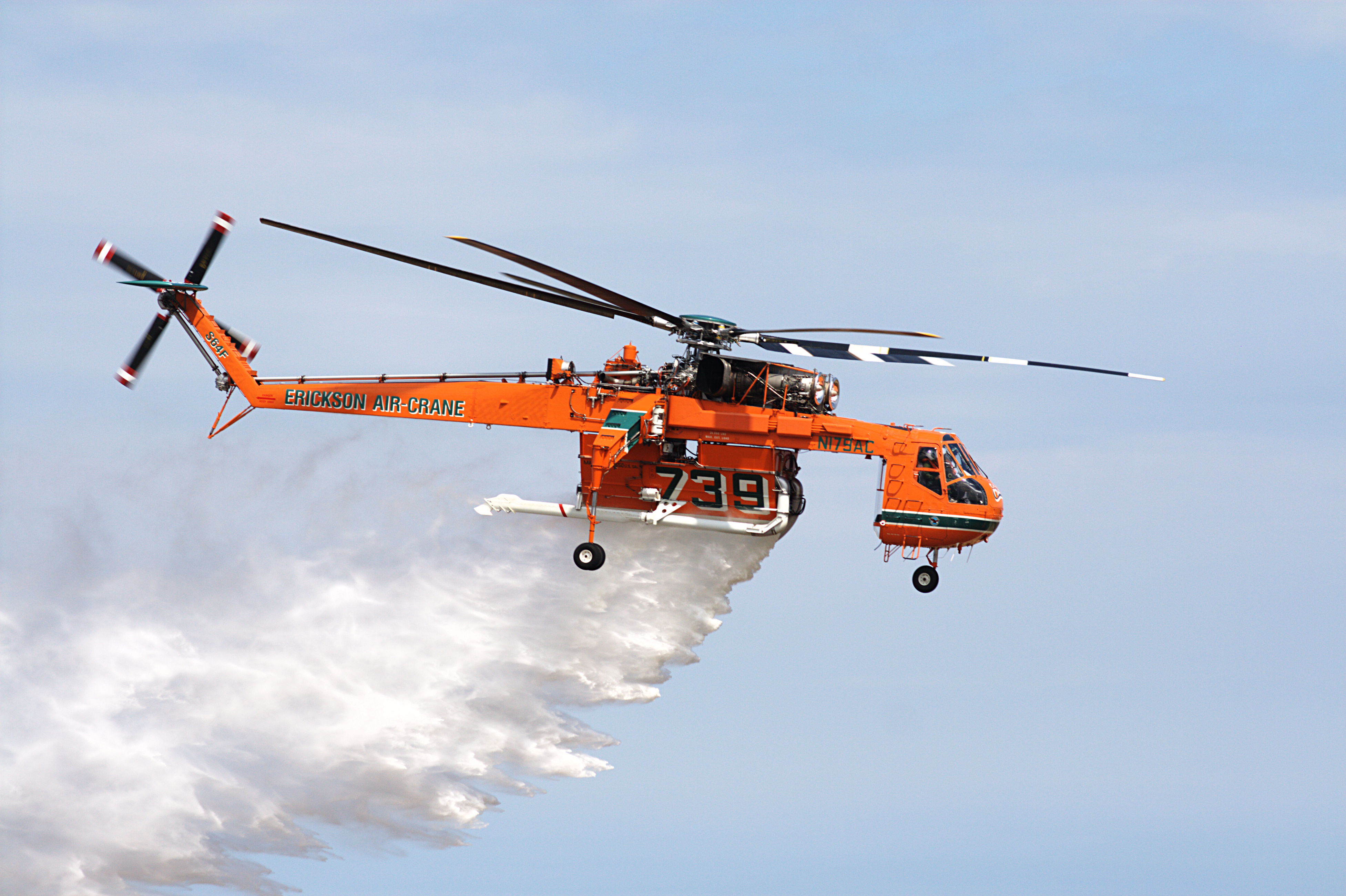 Air-Crane Water Drop